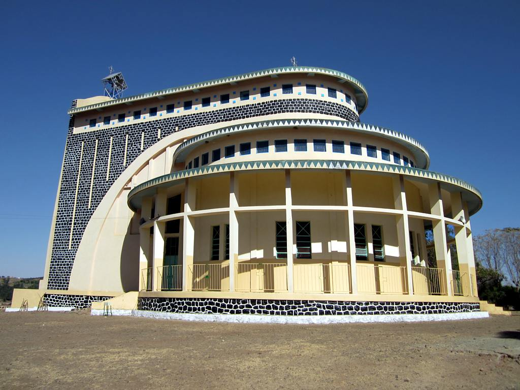 St George's Orthodox Church crowns a prominent hill in Mendefera, Eritrea.